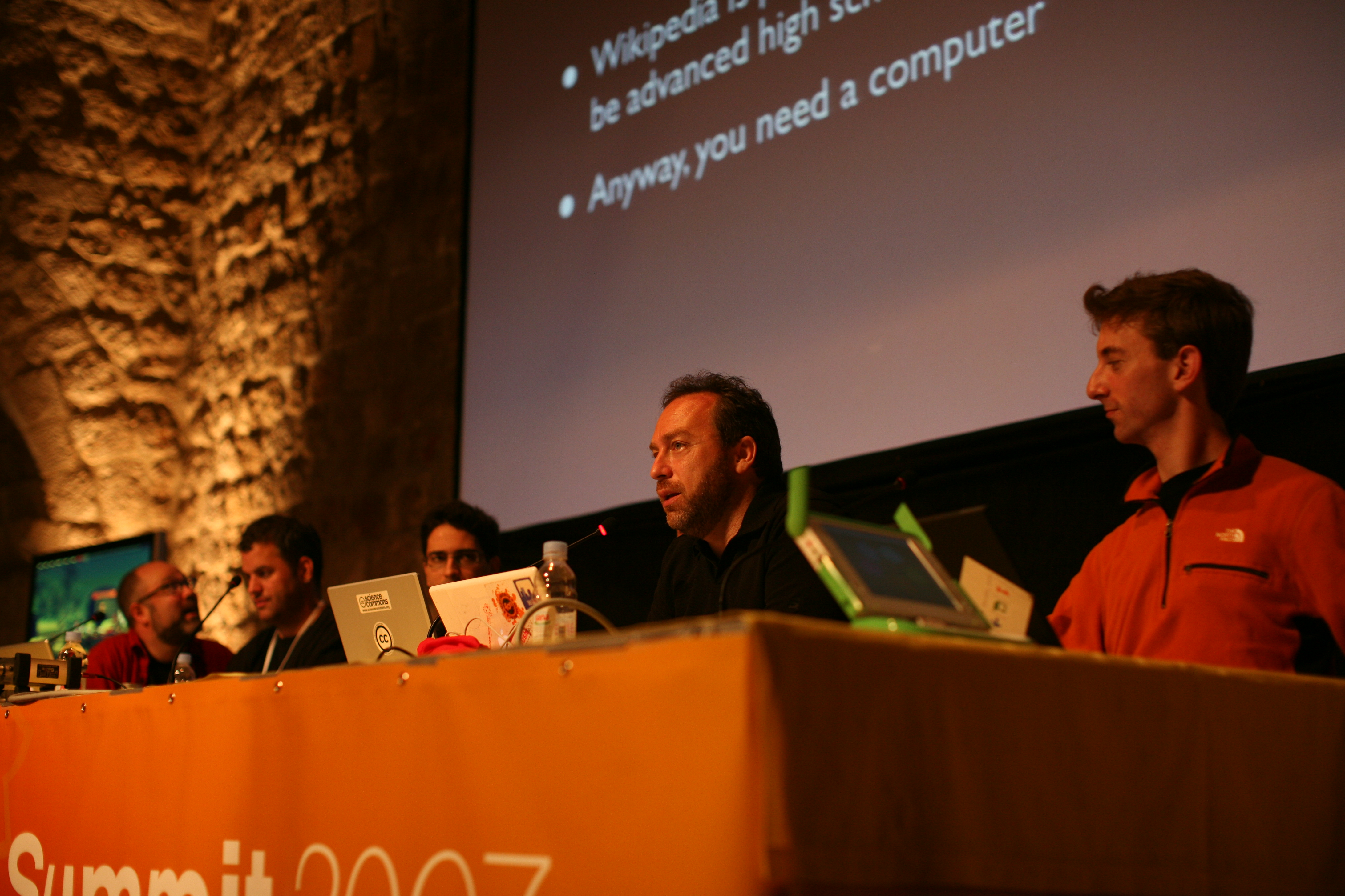 Jimmy Wales at iCommons Summit 2007 in Dubrovnik.